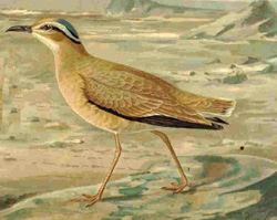 Cream-coloured Courser